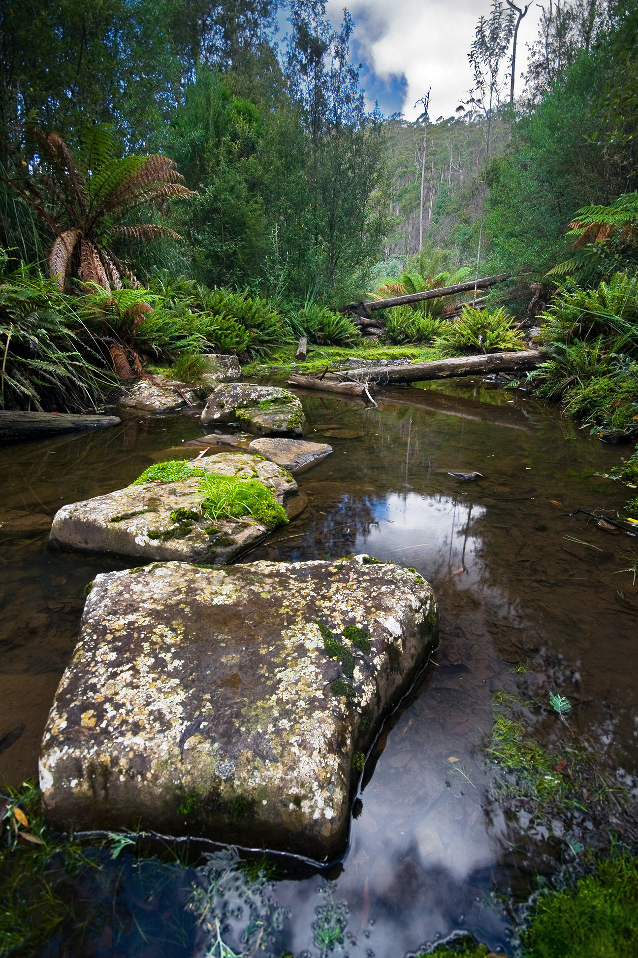 Sandspit River, Wielangta Forest, Tasmania Camera data Camera Canon EOS 400D Lens Sigma 10-20mm F4-5.6 EX DC HSM Filter Circular Polariser Focal length 10 mm Aperture f/8 Exposure time 1/4 s Sensivity ISO 100